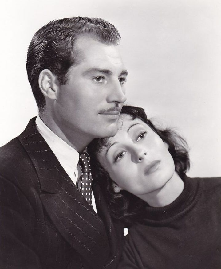 MGM press photo of Alan Marshal and Luise Rainer in "Dramatic School" (1948)